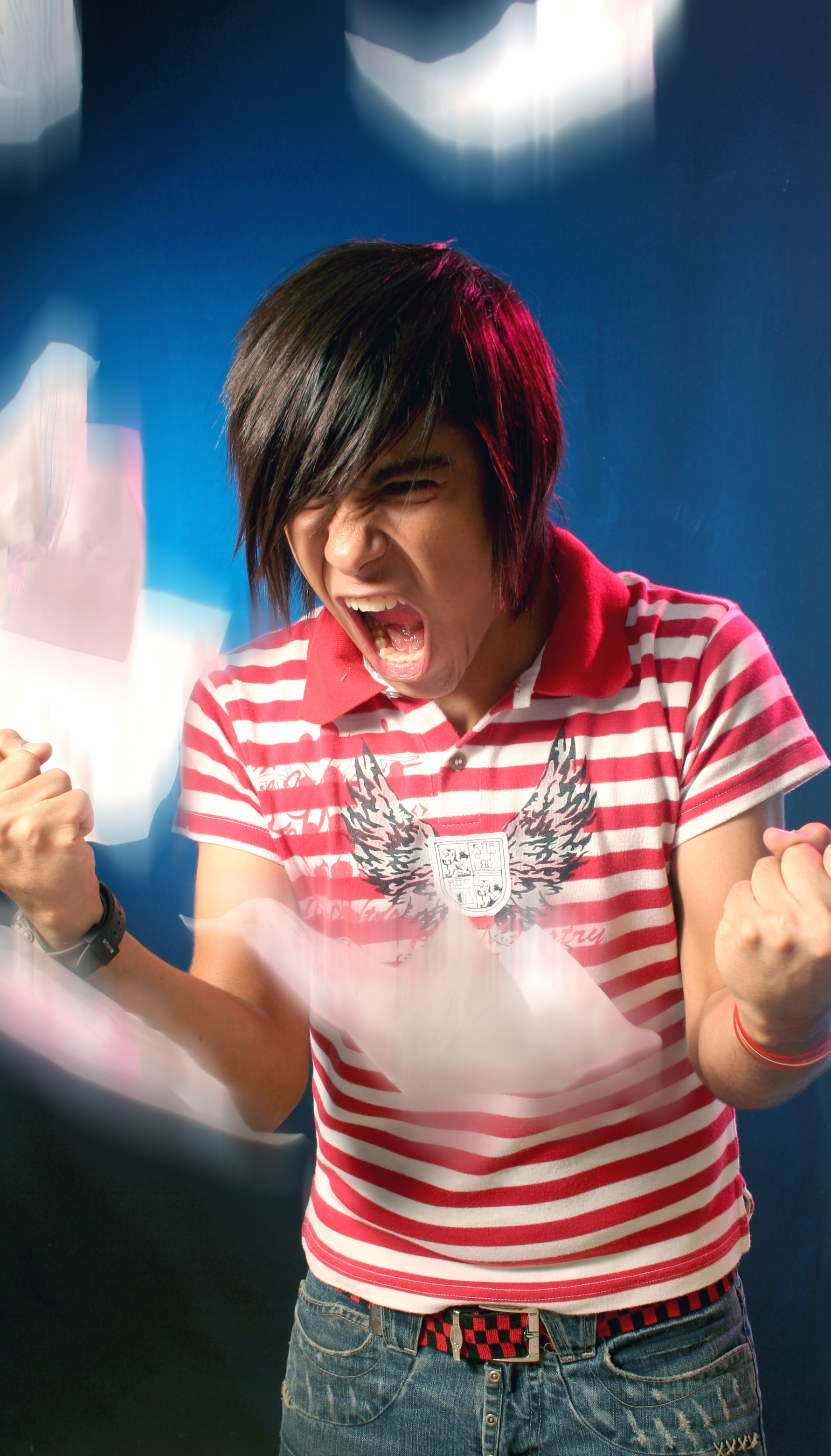 Model: Arturo PozoPhotography: José Miguel SerranoSpecial Thanks to Manuel Tama who teached me how to take pictures in a photo study and had me patience...! Thanks...! =o)